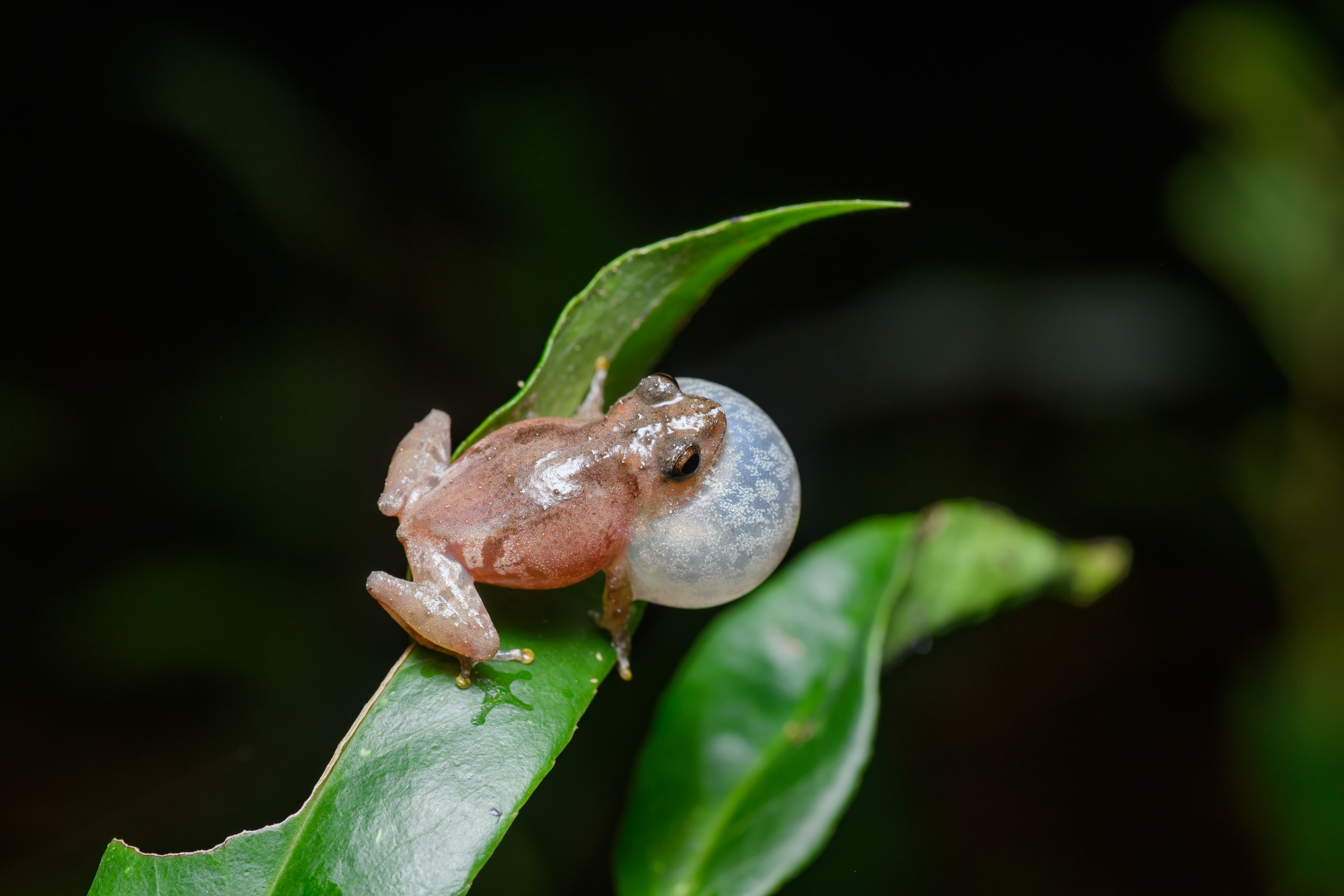 Raorchestes parvulus, Dwarf bush frog (male) - Phu Kradueng National Park. Photo by Thai National Parks